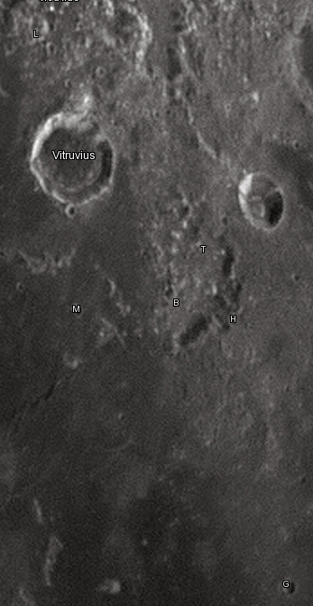 Vitruvius lunar crater as seen from Earth with satellite craters labeled